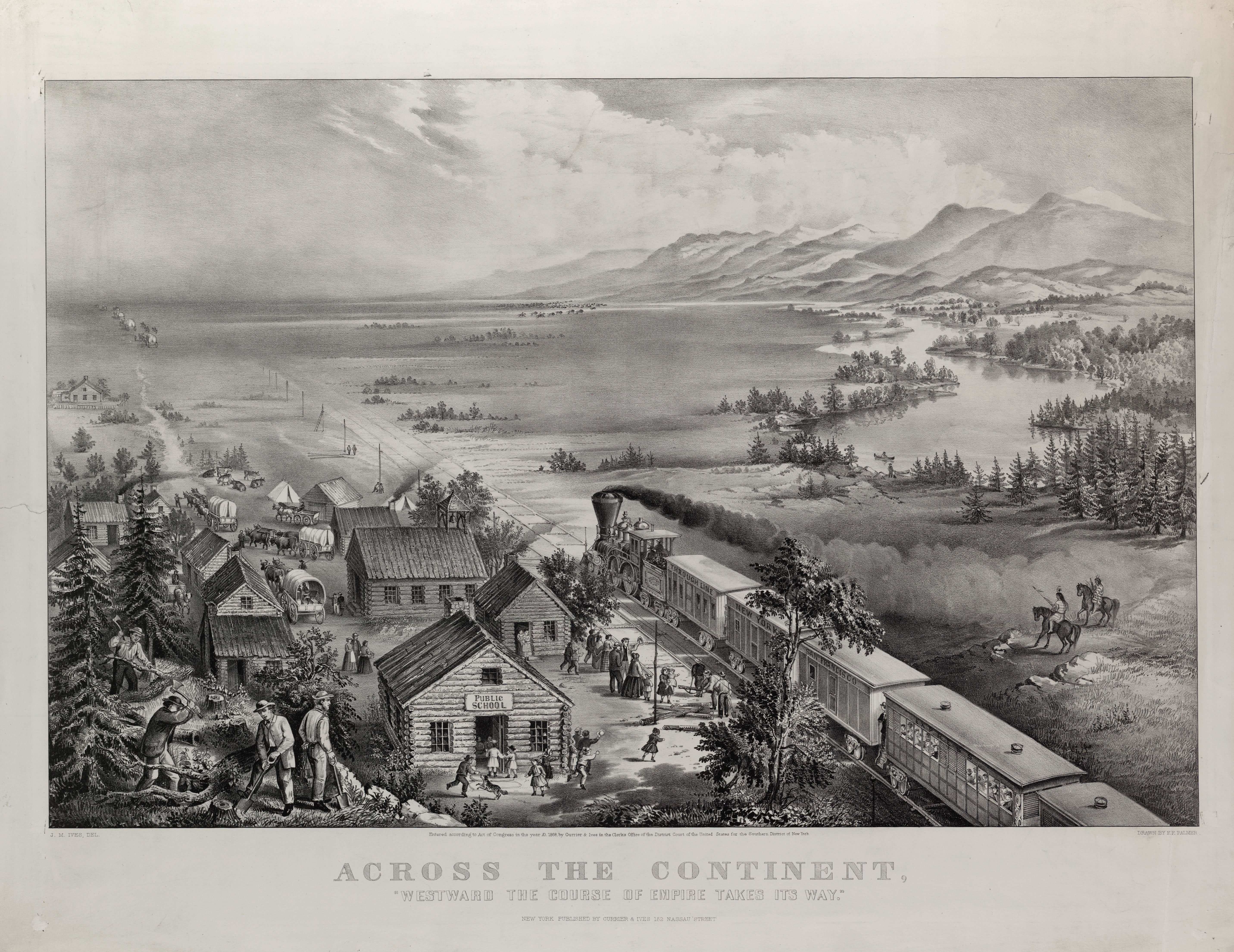 Across the continent, "Westward the course of empire takes its way". Cropped and adjusted for contrast from Library of Congress original.Exhibited: "Rivers, Edens, Empires : Louis & Clark and the Revealing of America" at Joslyn Art Museum, Omaha, Nebraska ; North Dakota Museum of Art, Bismark, North Dakota ; Museum of History and Industry, Seattle, Washington, 2004-05.